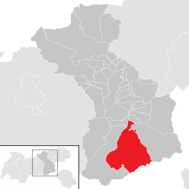 District Schwaz